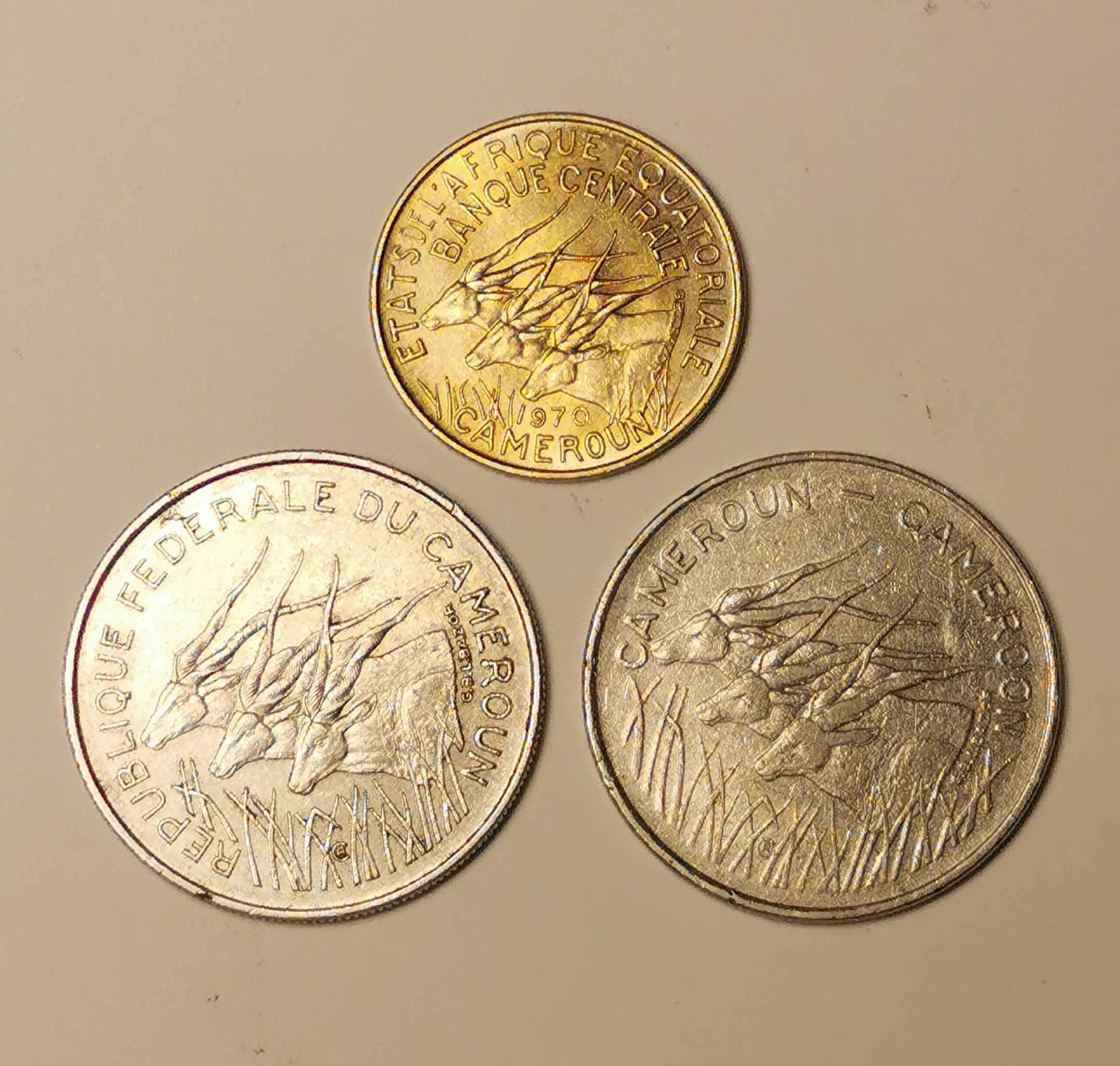 3 coins from Cameroon, reverse : 5 francs 1970, 100 francs 1971 et 100 francs 1972. Stucked in Monnaie de Paris.